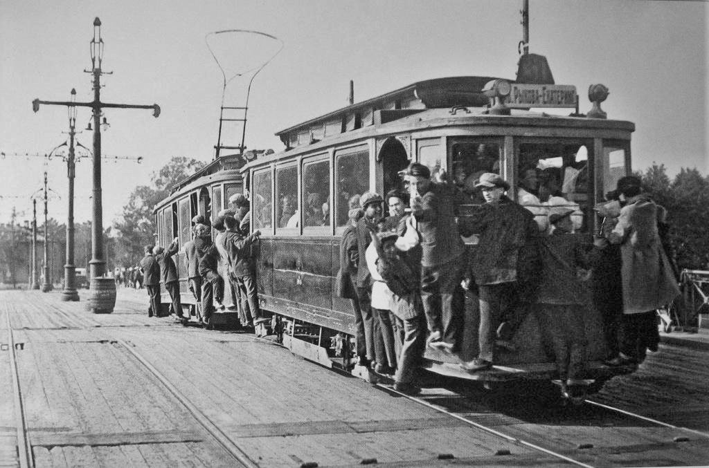 A crowded MS+PS trams with tram surfers on Stroganovsky (now Ushakovsky) (not Kamennoostrovsky!) bridge in Leningrad, 1933.